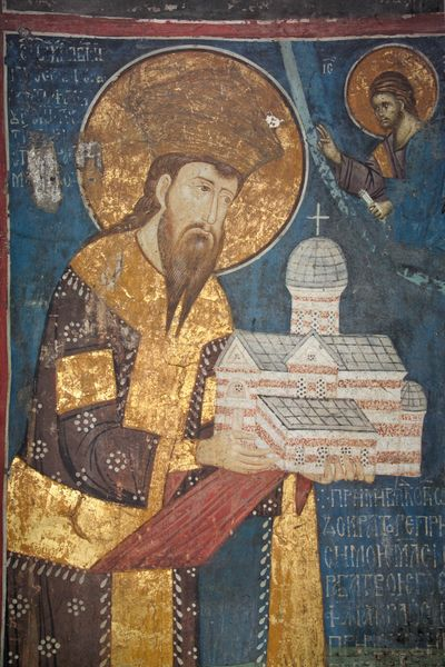 The fresco of king Stefan Dečanski with church model, Dečani, Serbia